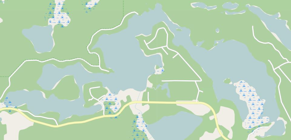 A depiction of Ness Lake from OpenStreetMap This map of British Columbia was created from OpenStreetMap project data, collected by the community. This map may be incomplete, and may contain errors. Don't rely solely on it for navigation.